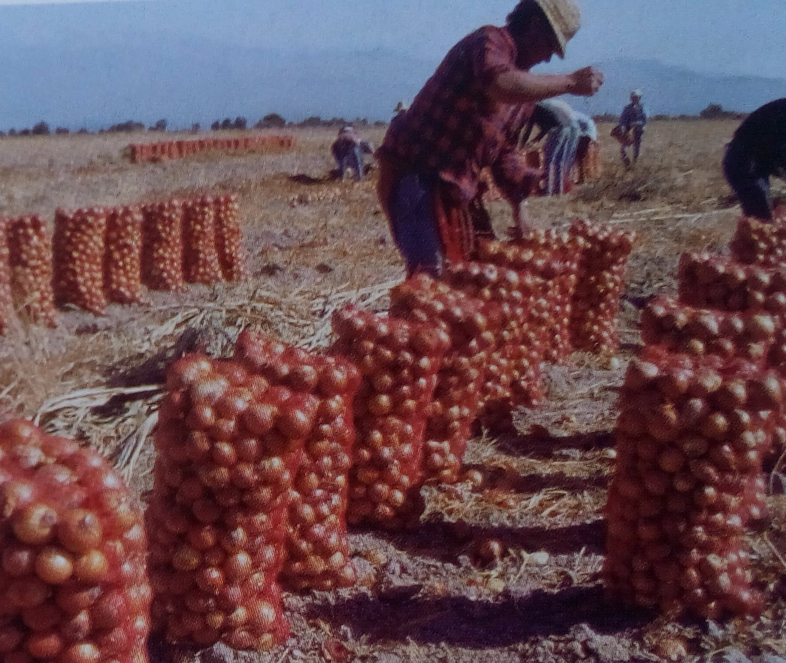 Embolsado de cebollas Argentina